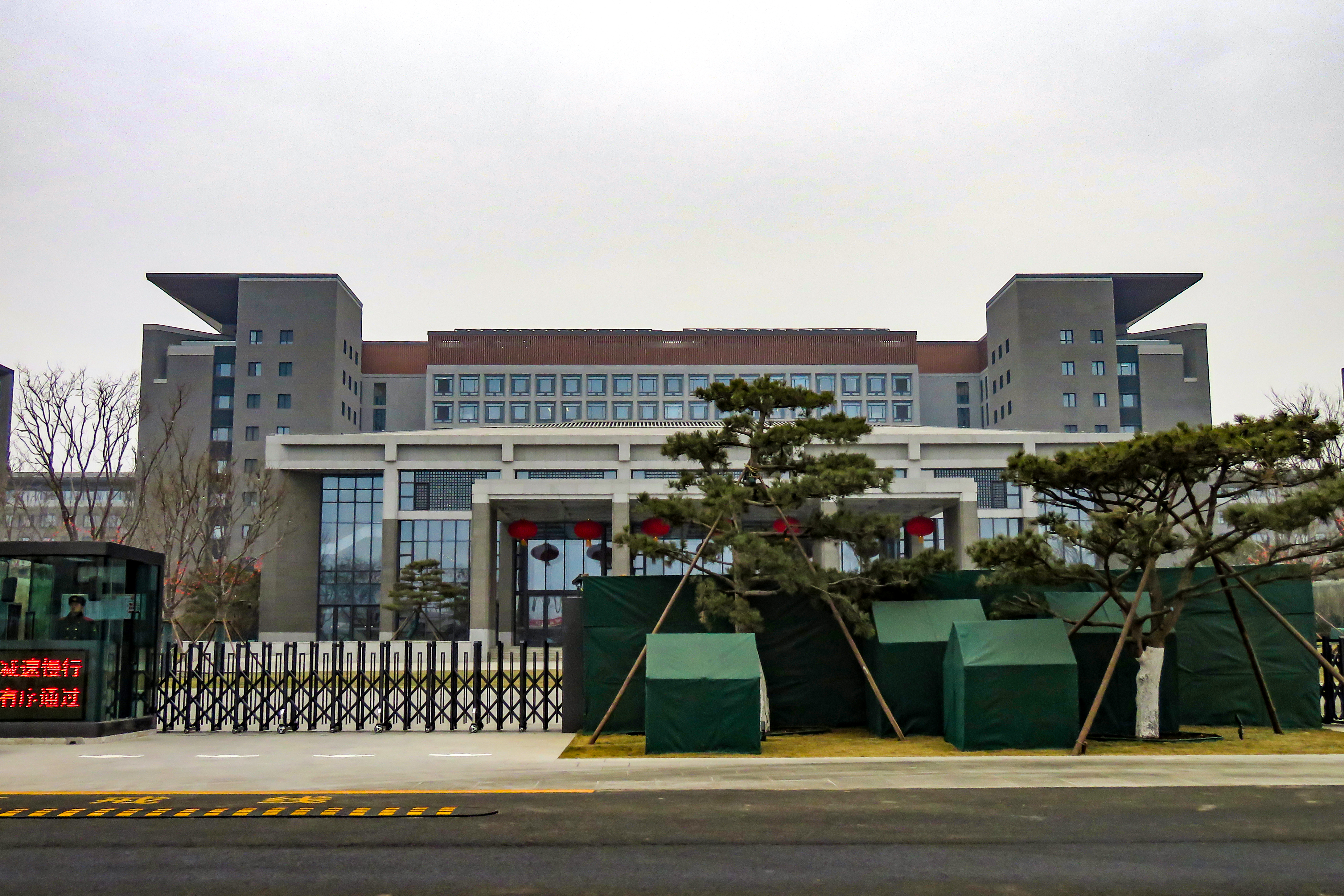 Just moved here, but the sign?